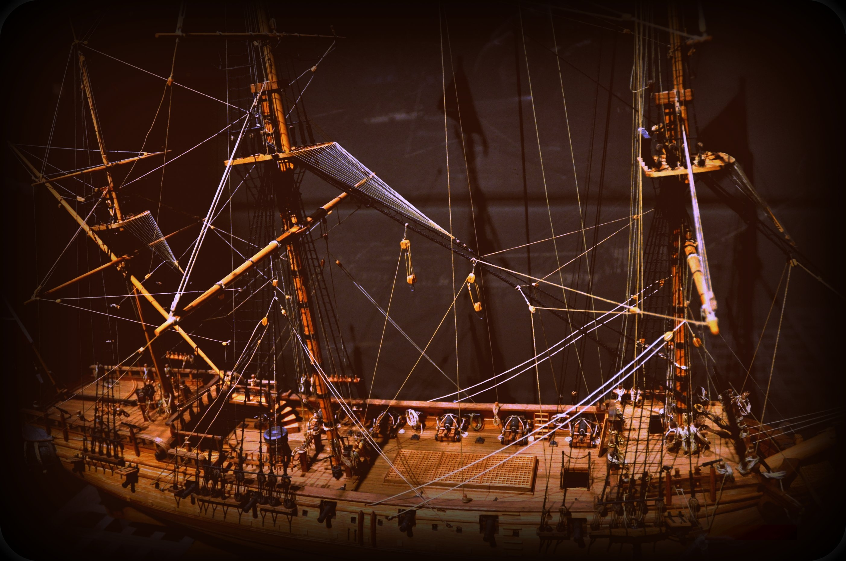 Model of the Whydah Galley